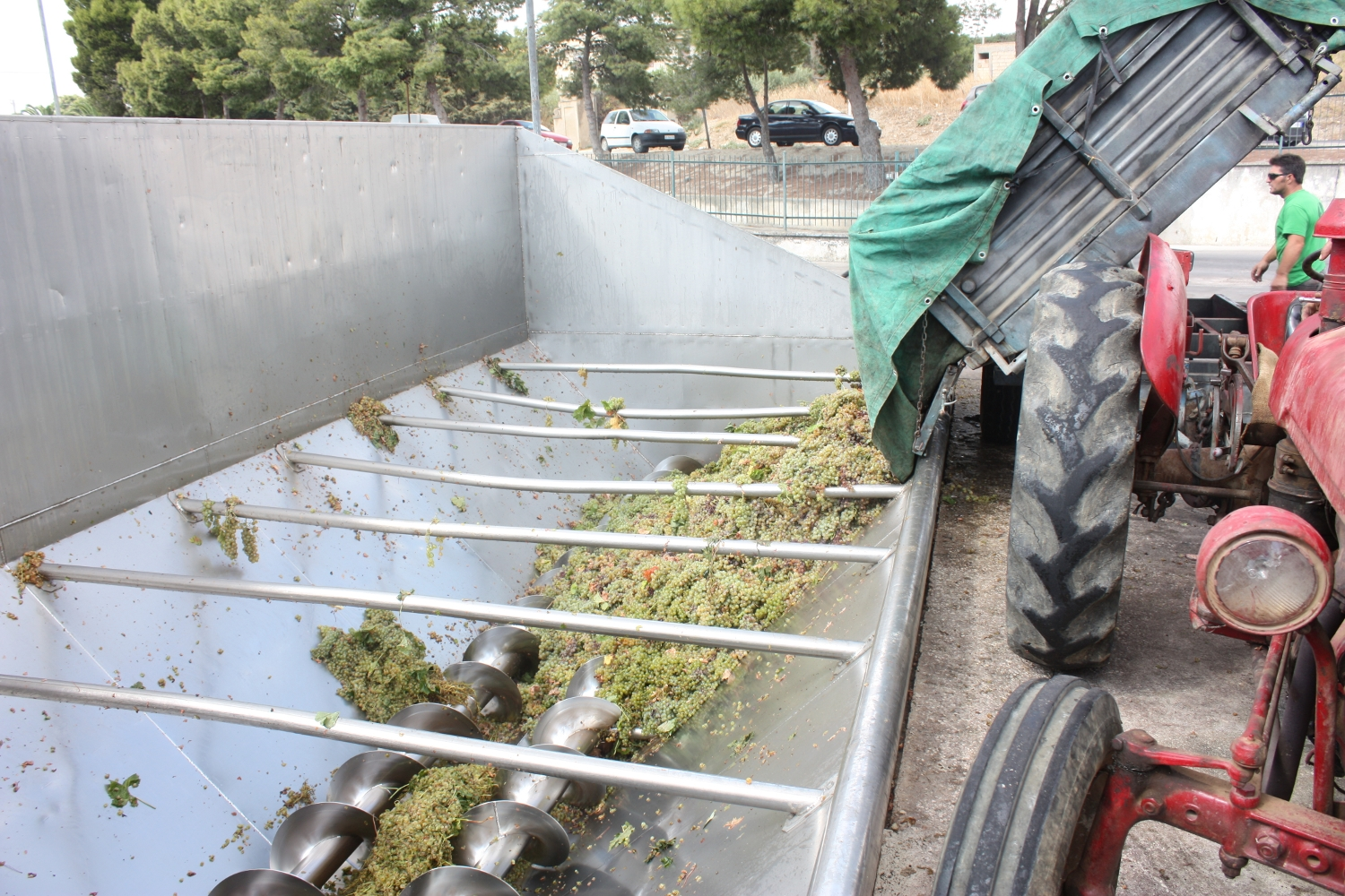 White wine grapes going through a crusher/destemmer that will separate the berries from the cluster stems and crush them before heading to the wine press.